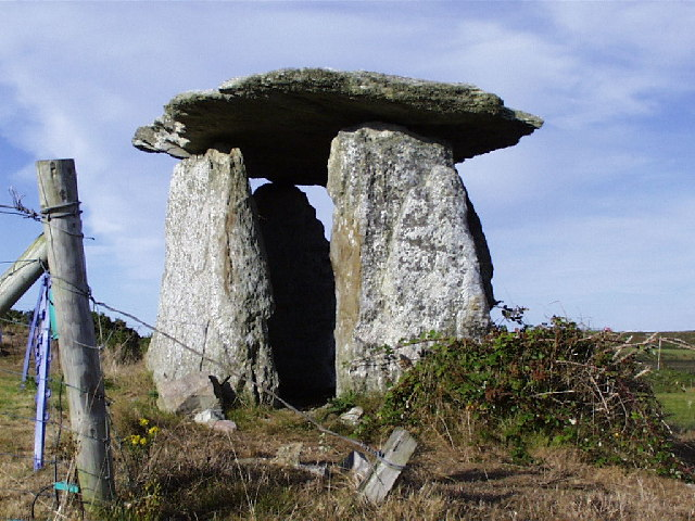 Cromlech - Rhoscolyn. A five stone cromlech situated just behind the bay at Rhoscolyn.